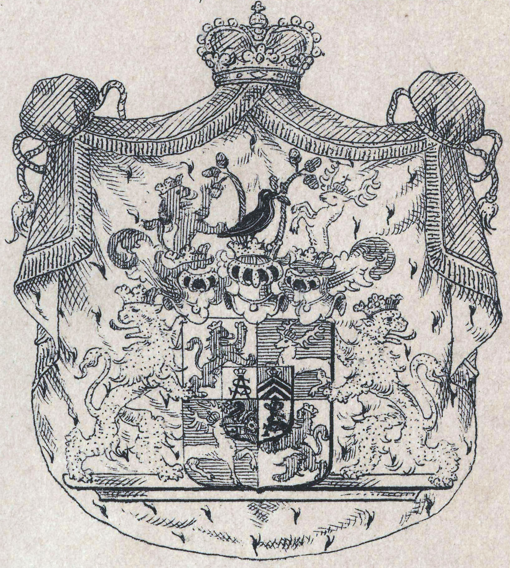 Coat of arms of duchy of Curland 1769-95